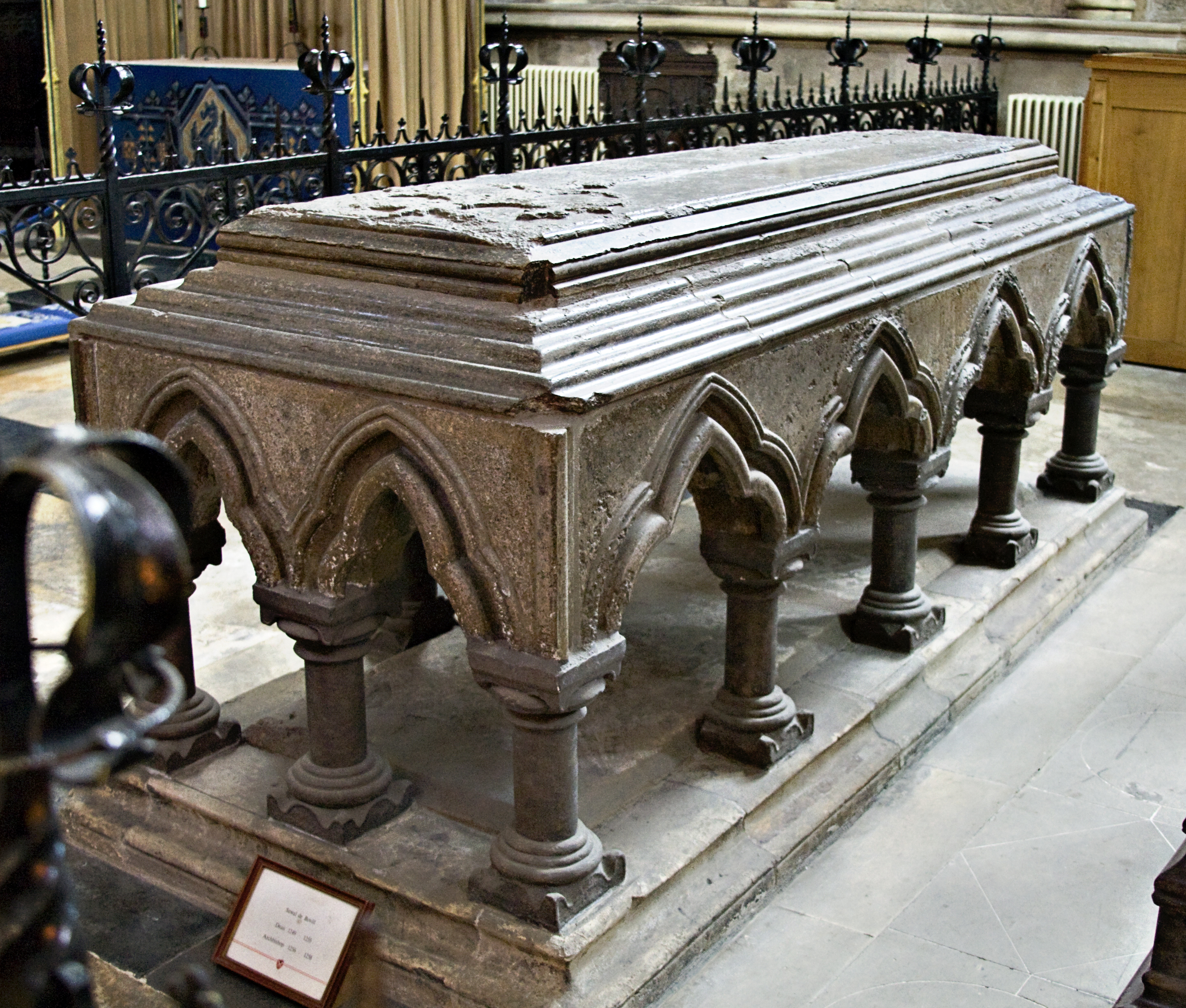 Tomb of Sewal de Bovil, Archbishop of York, in York Minster, York, England